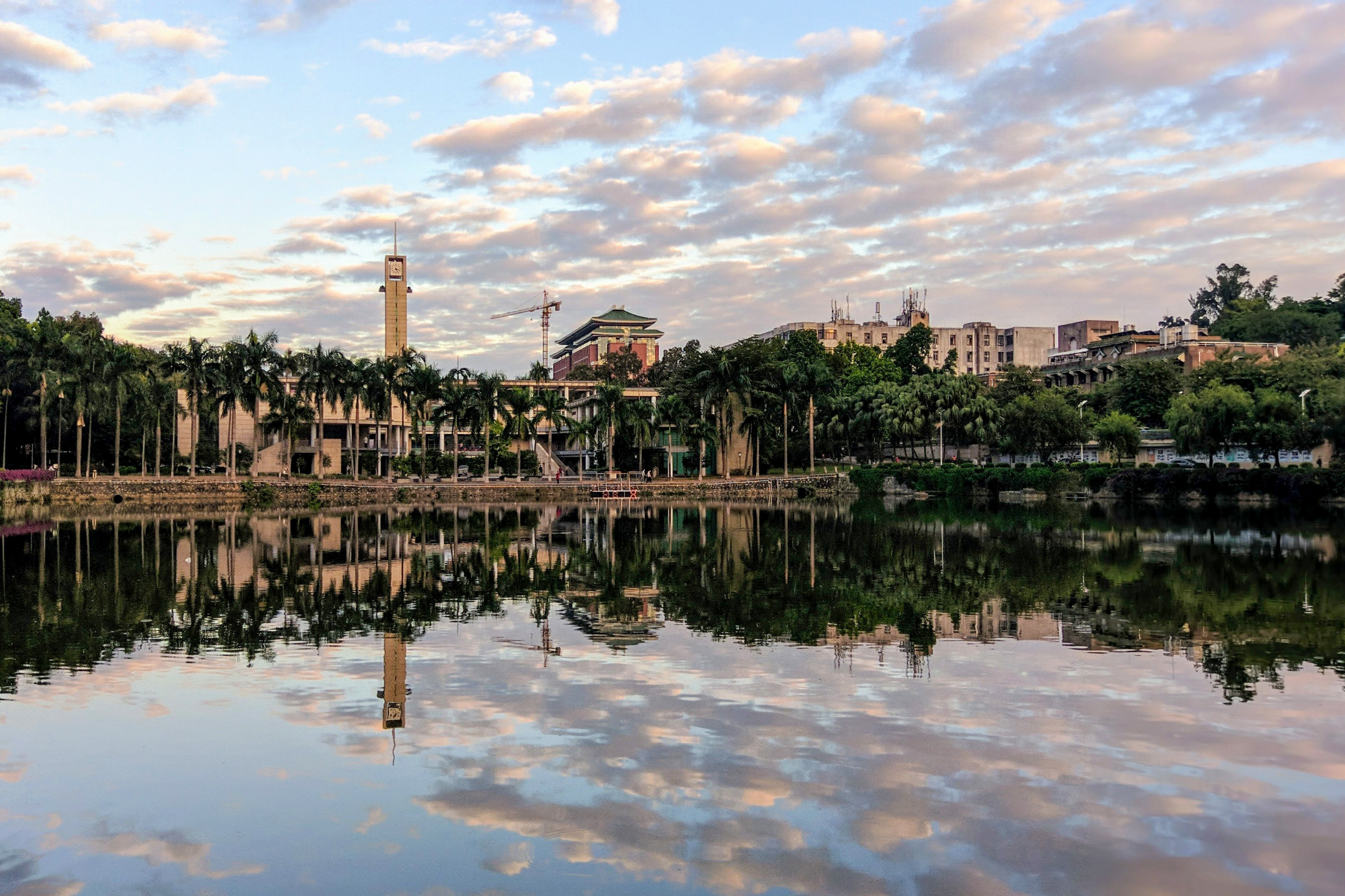 West Lake and Shaw Building of Humanities, South China University of Technology.